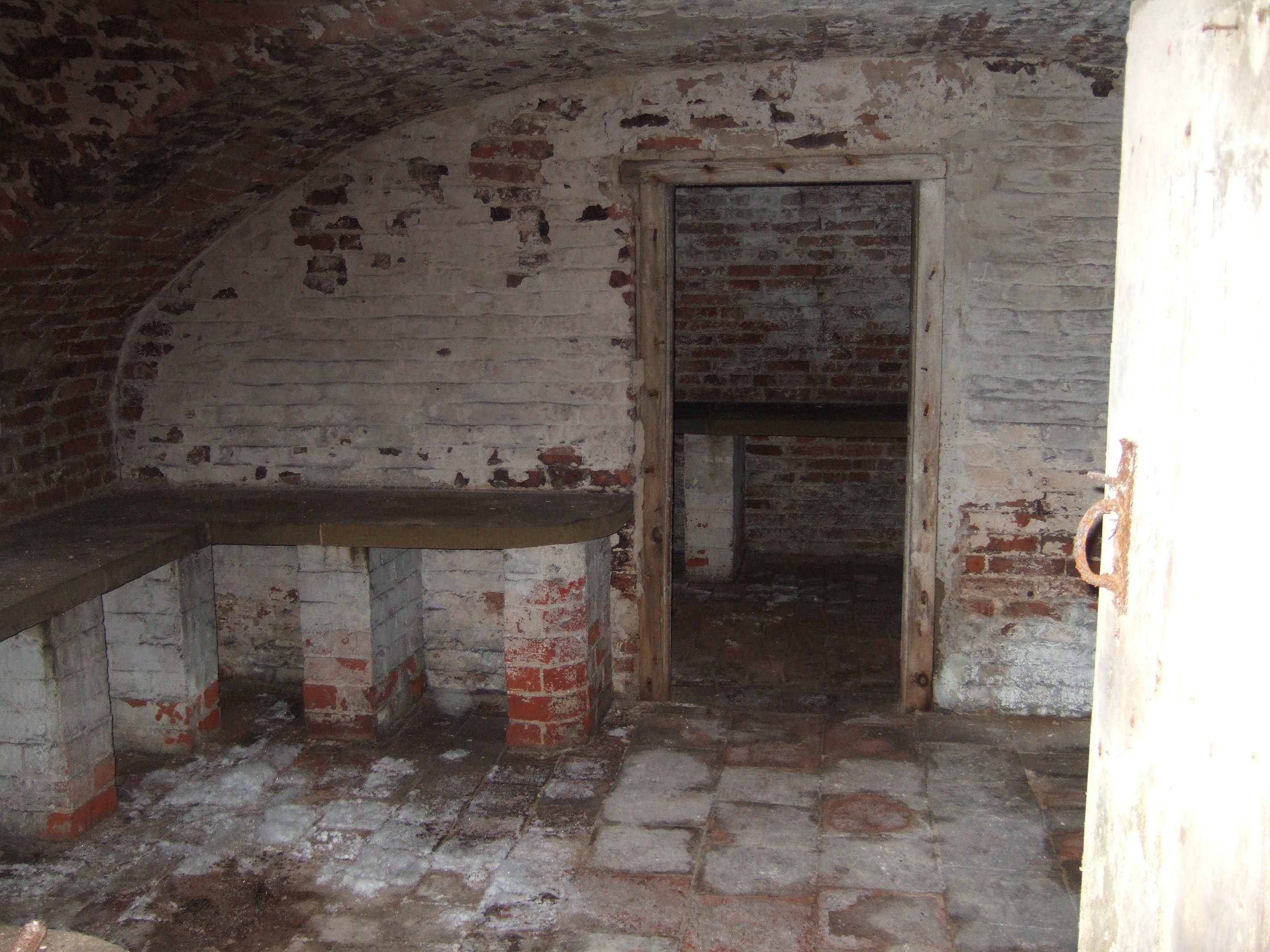 Vaulted brick partially subteranean basement used for cold storage of game at Hirst Priory.